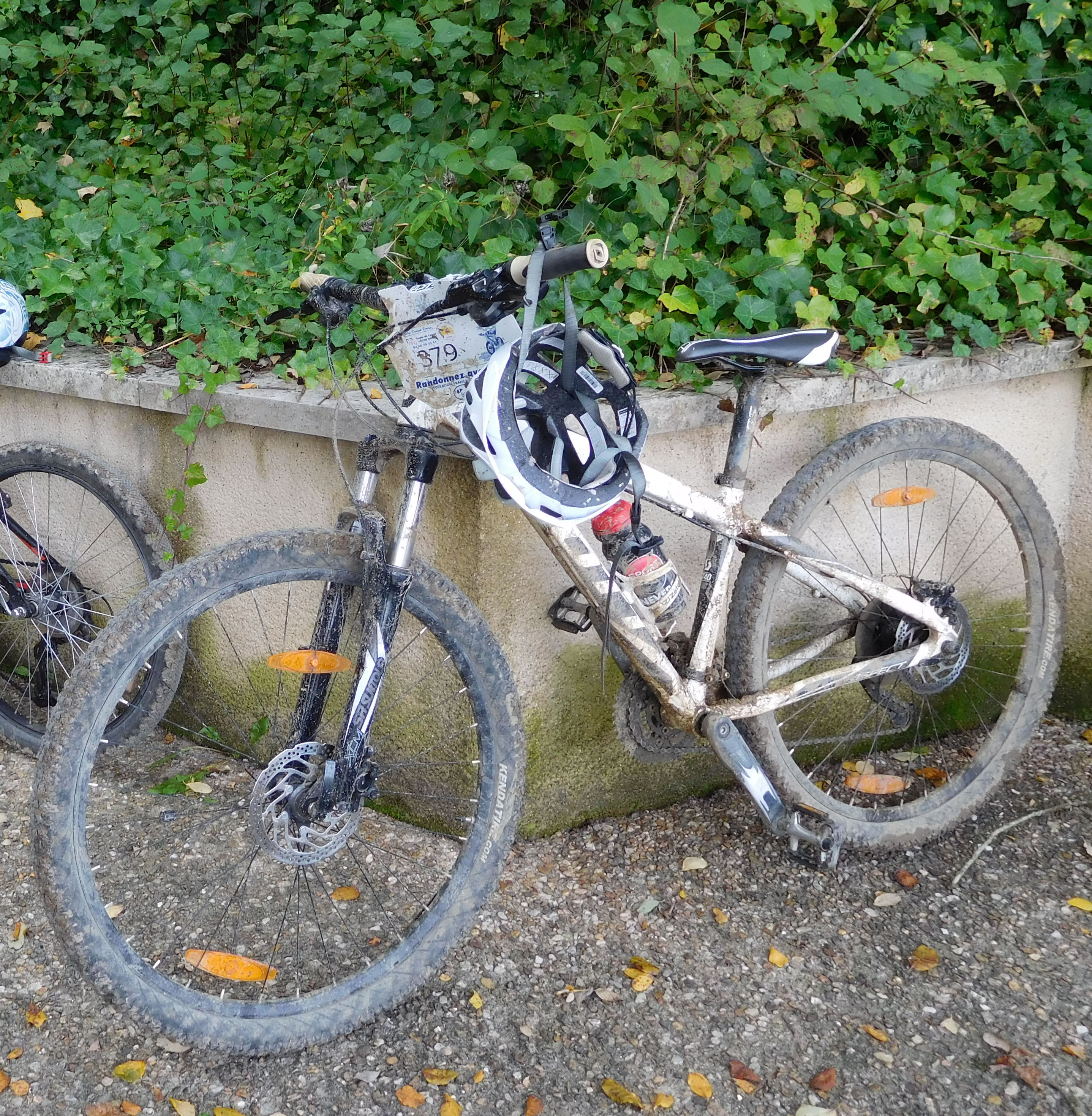 Scott Aspect 740 white/black MTB (equipped with Kenda tires) in France